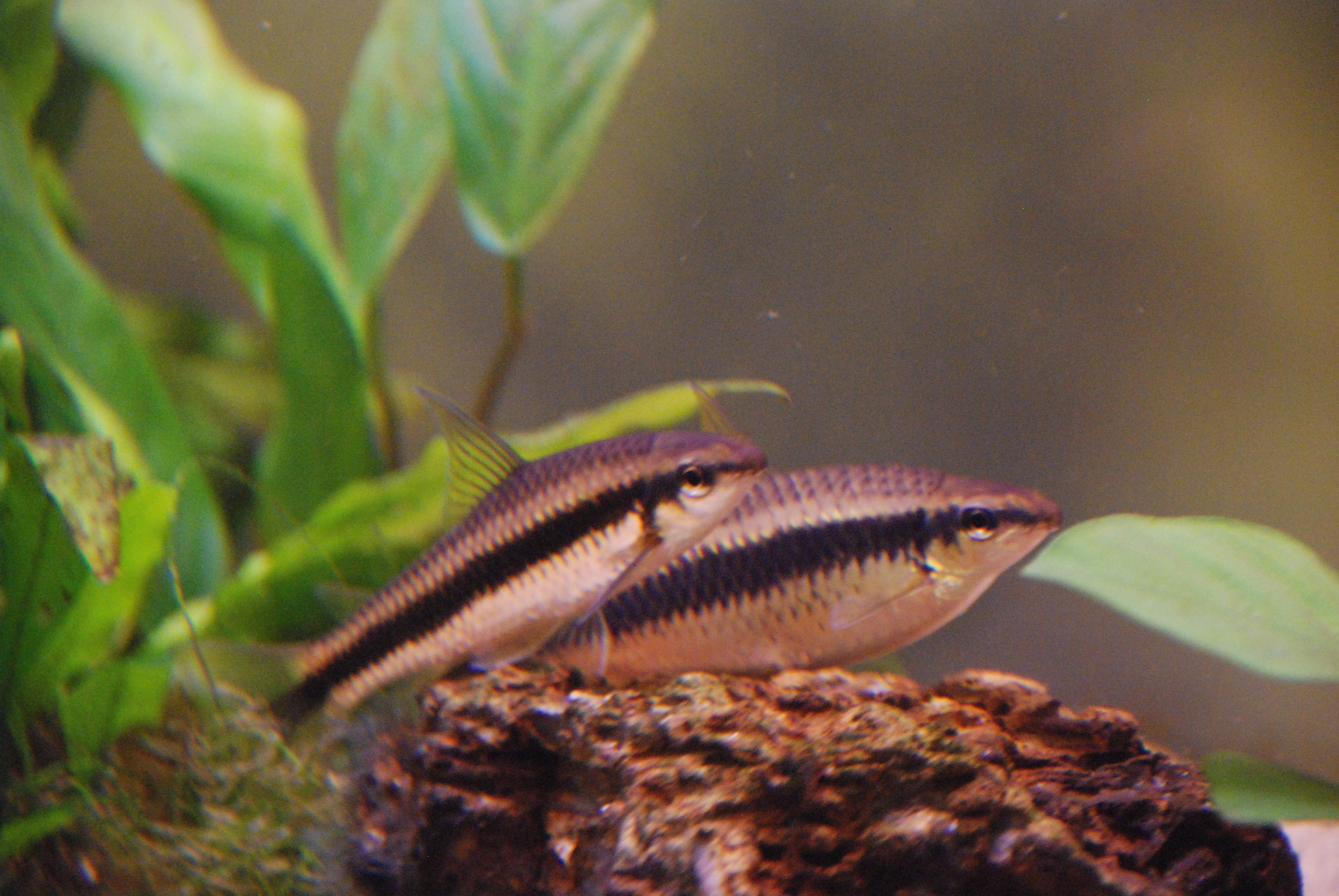 Two fish of the Crossocheilus genus resting on a rock. Note: The file is named Crossocheilus Oblongus, but I now think the fish are probably Crossocheilus Langei instead.